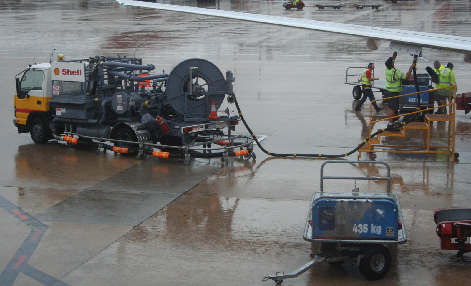 Airport hydrant truck, refuelling aircraft